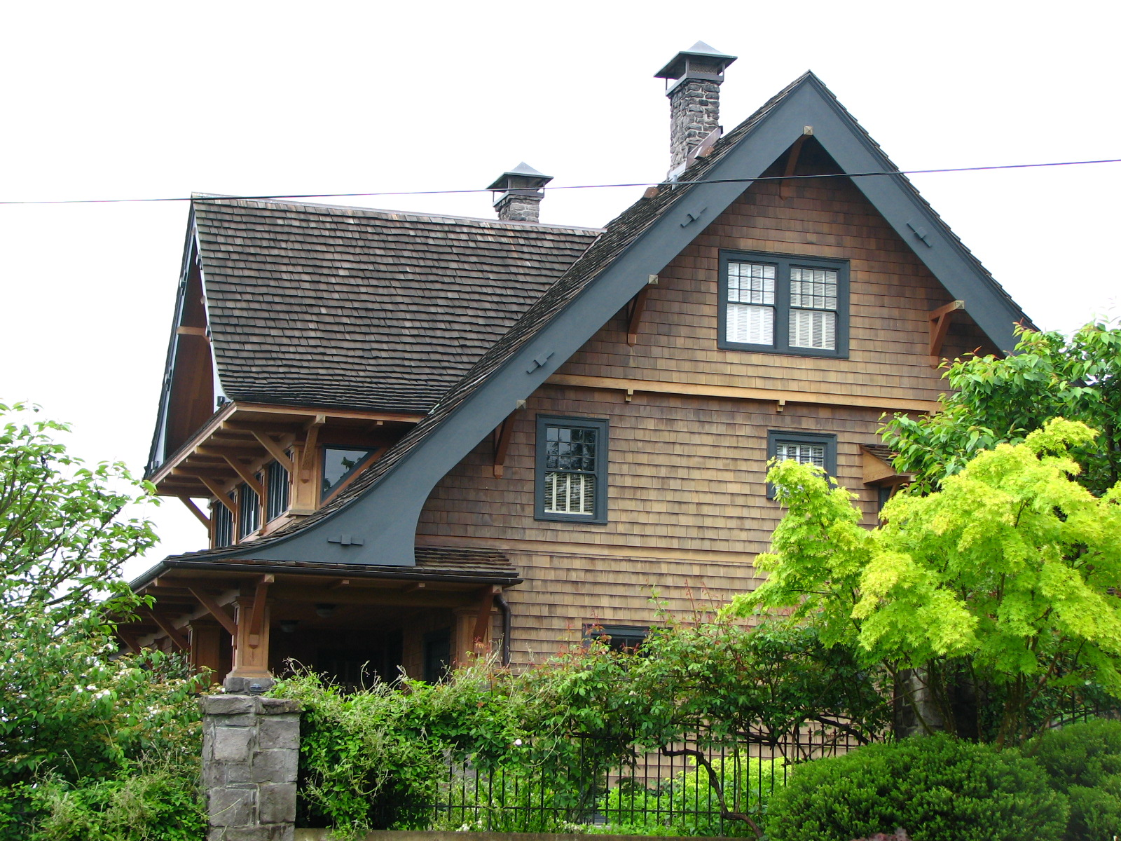 The historic Joseph Gaston House (built 1908), located at 1960 Southwest 16th Avenue in Portland, Oregon, United States, is listed on the US National Register of Historic Places.